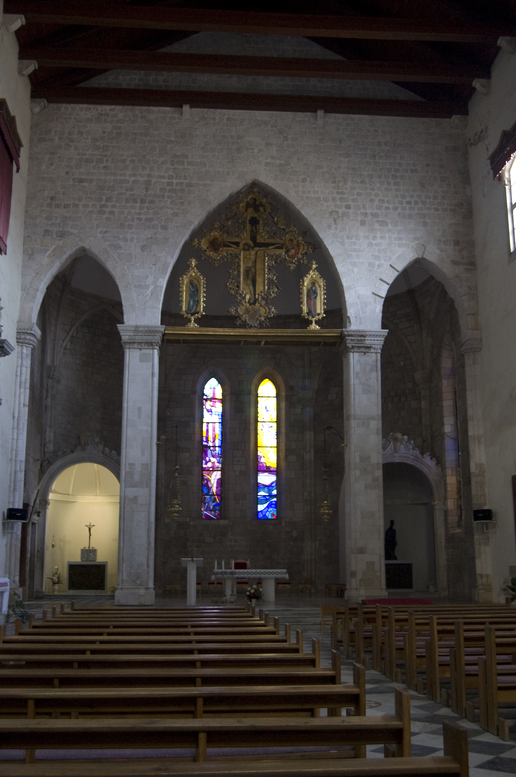 The interior of the church of the Dominican monastery, Dubrovnik.